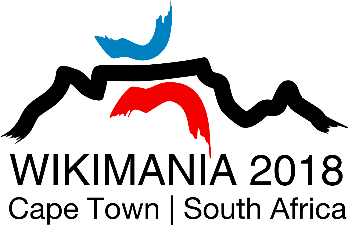 Draft version of the Wikimania 2018 Cape Town logo with black outline of Table Mountain.